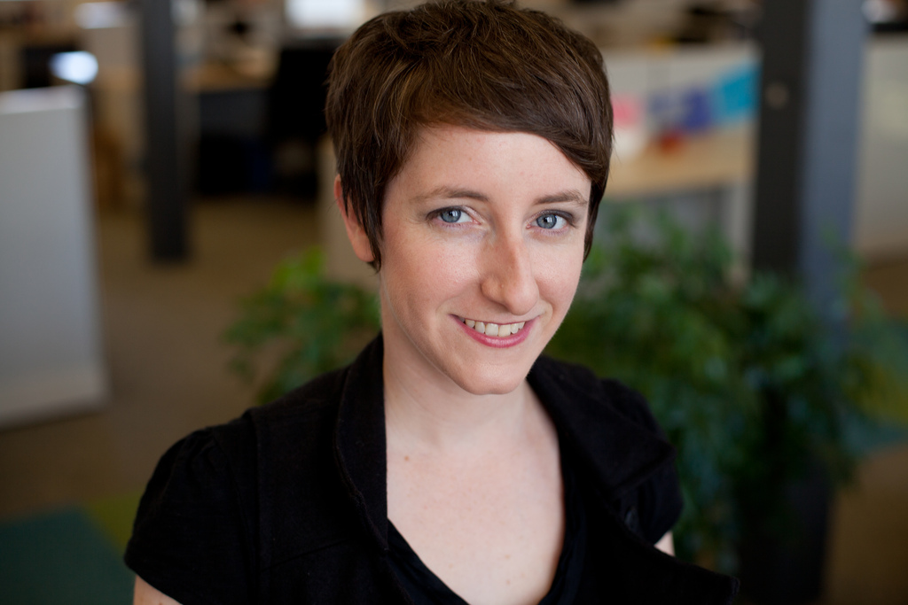 Sarah Stierch as taken by Matthew Roth!